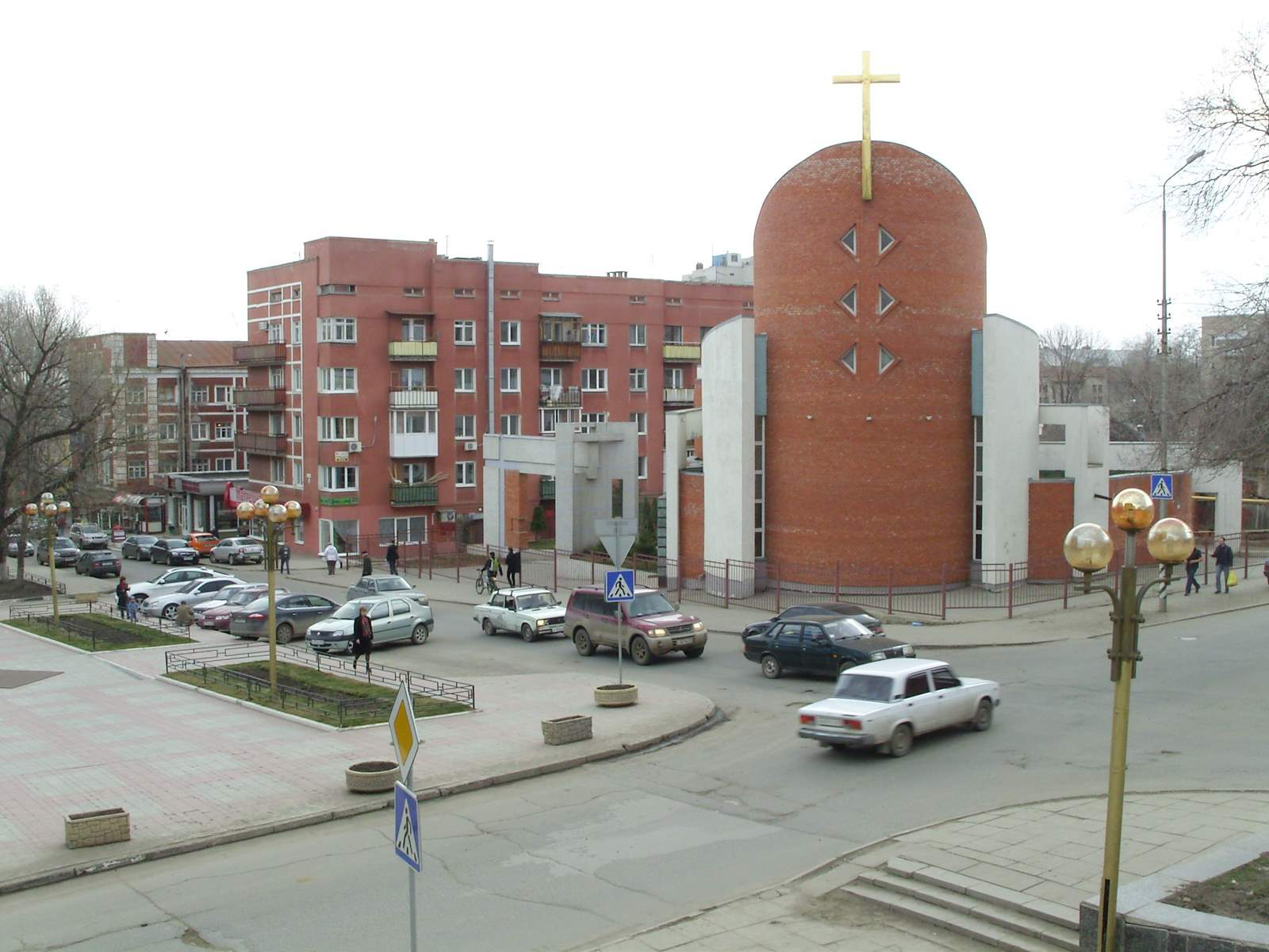 Cathedral of Saints Peter and Paul, Saratov